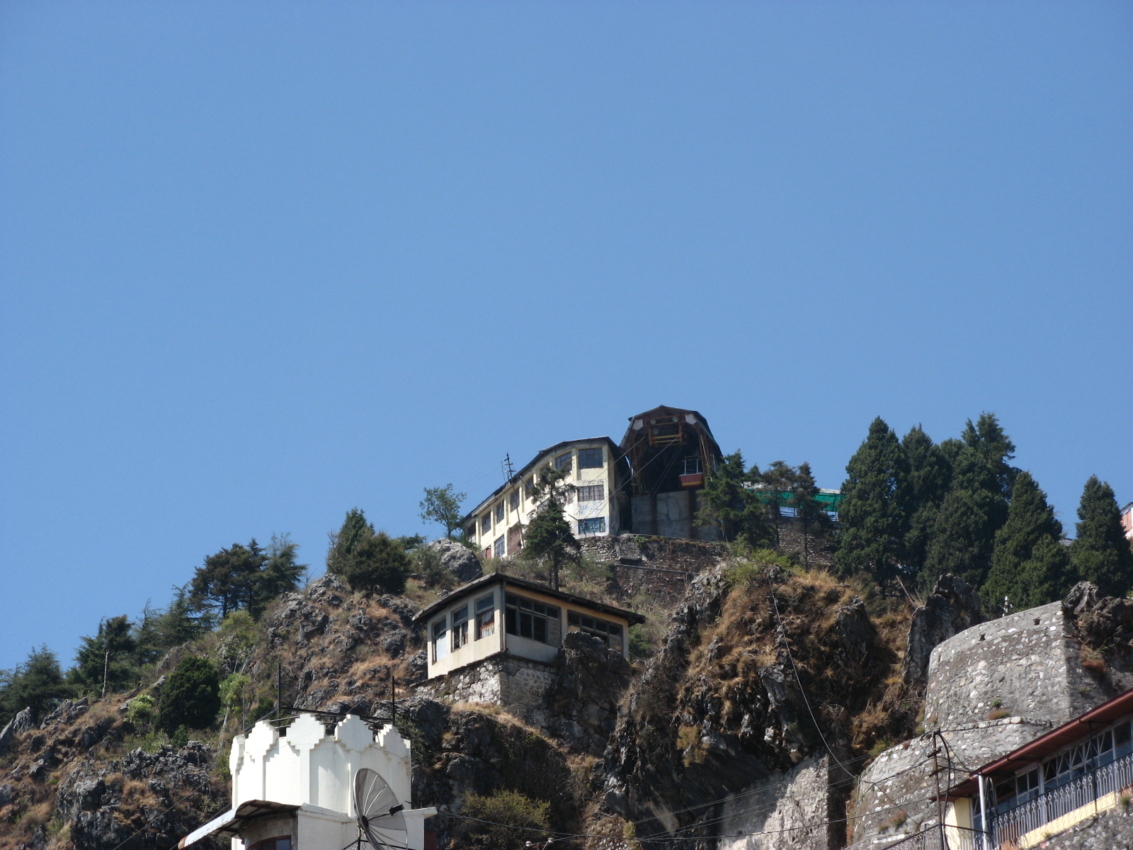 Mussoorie